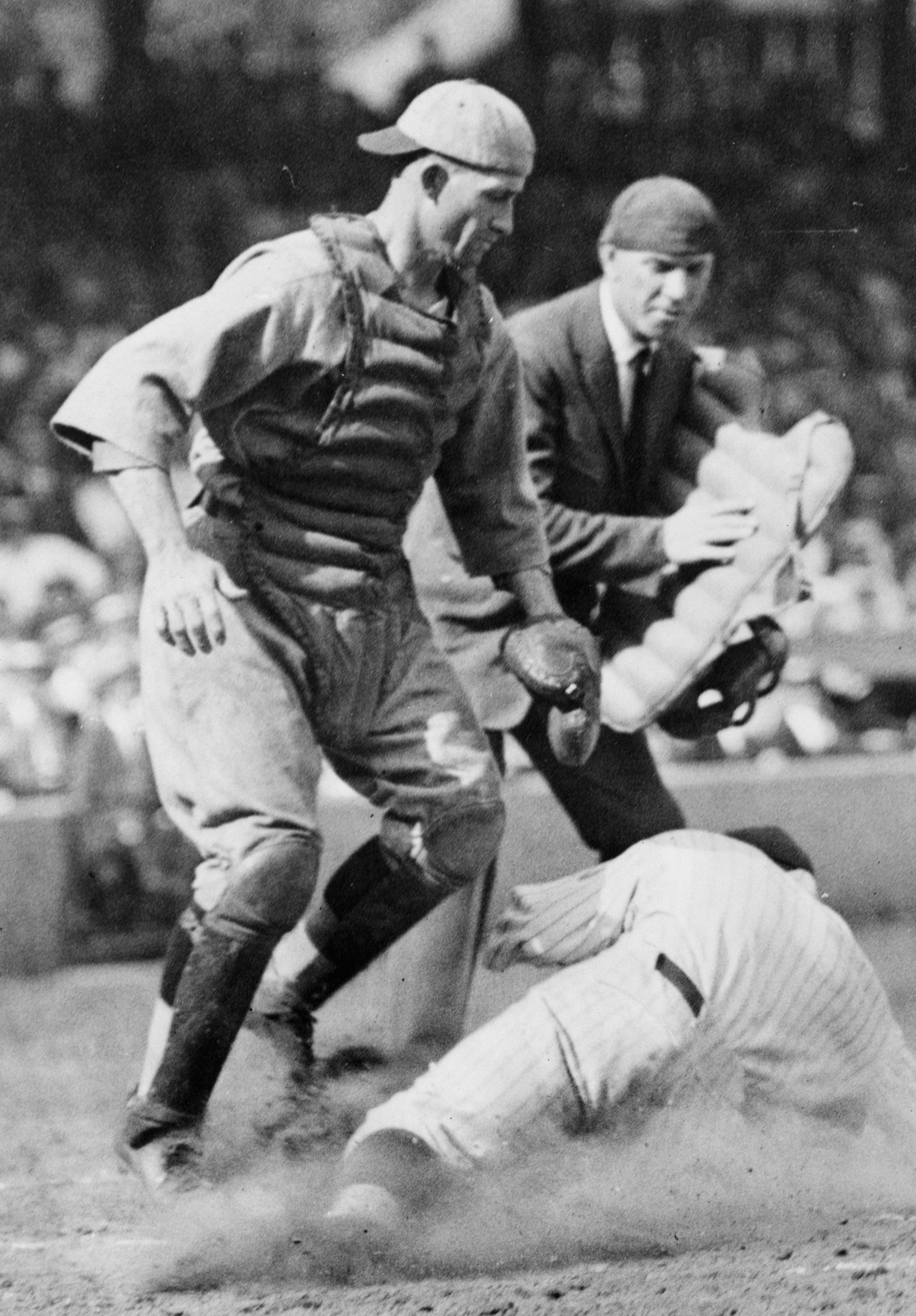 Title: Umpire Dick Nallin is ready to make the call as Washington Senators' Earl McNeely safely slides into home plate at the feet of the Boston Red Sox catcher, George Bischoff, in the 1st inning. Senators beat the Red Sox 7-6 Abstract/medium: 1 photographic print.